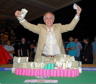 Burt Boutin, after winning in the 2007 World Series of Poker $5,000 Pot Limit Omaha with rebuys event